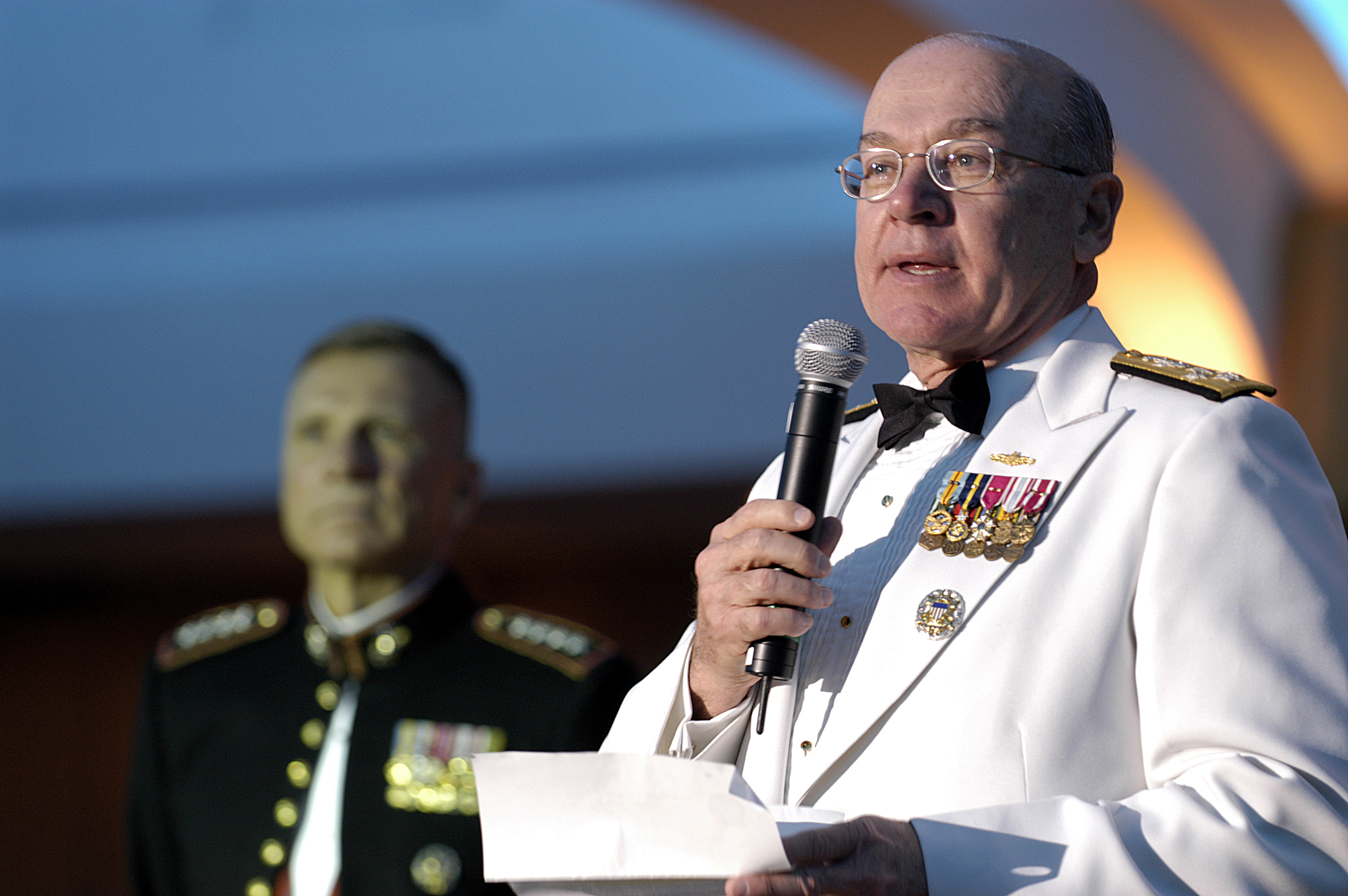 Washington, D.C. (April 23, 2005) – Commandant of the Marine Corps Gen. Michael Hagee looks on as Chief of Naval Operations Adm. Vern Clark speaks at the Navy-Marine Corps Relief Society Ball of 2005, held at the Washington Hilton and Towers in Washington, D.C. Adm. Clark spoke on the importance of the Navy-Marine Corps team and how the Navy-Marine Corps Relief Society helps our service members and family members. Through generous, tax-deductible corporate donations, the Navy-Marine Corps Ball generates money that is immediately available to the Navy-Marine Corps Relief Society for disbursement in the form of interest-free loans and grants to active duty and retired Sailors, Marines, and their families in need around the world. This year the Ball Committee raised $343,400 for the Navy-Marine Corps Relief society. U.S. Navy photo by Photographer’s Mate 2nd Class Daniel J. McLain (RELEASED)